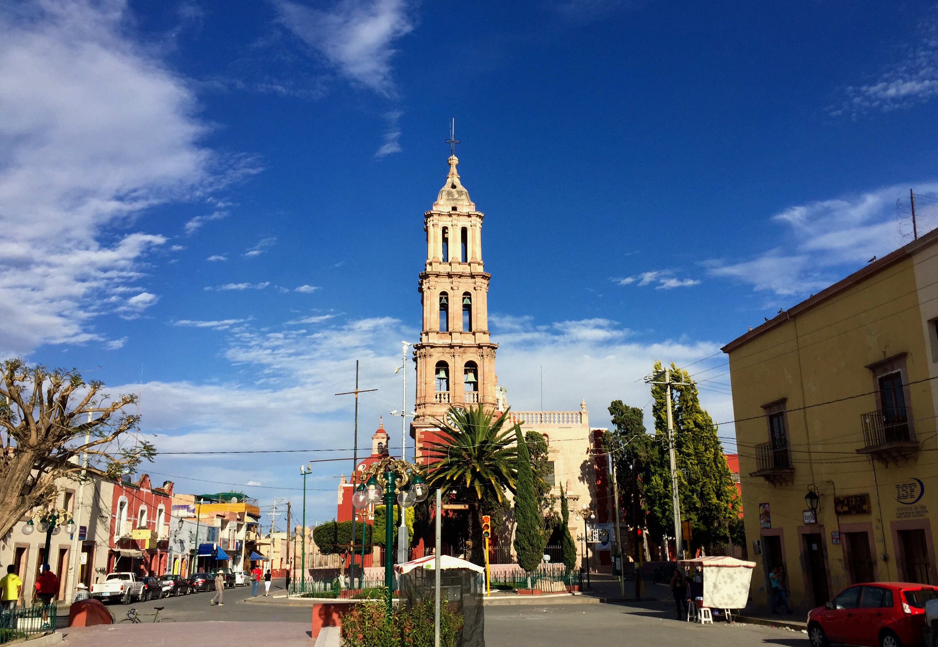 Parish church of San Felipe, Guanajuato, dedicated to Saint Philip the Apostle.